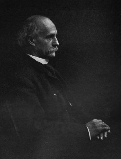 A Sunny Life: The Biography of Samuel June Barrows By Isabel Chapin Barrows Published by Little, Brown, and Co., 1913